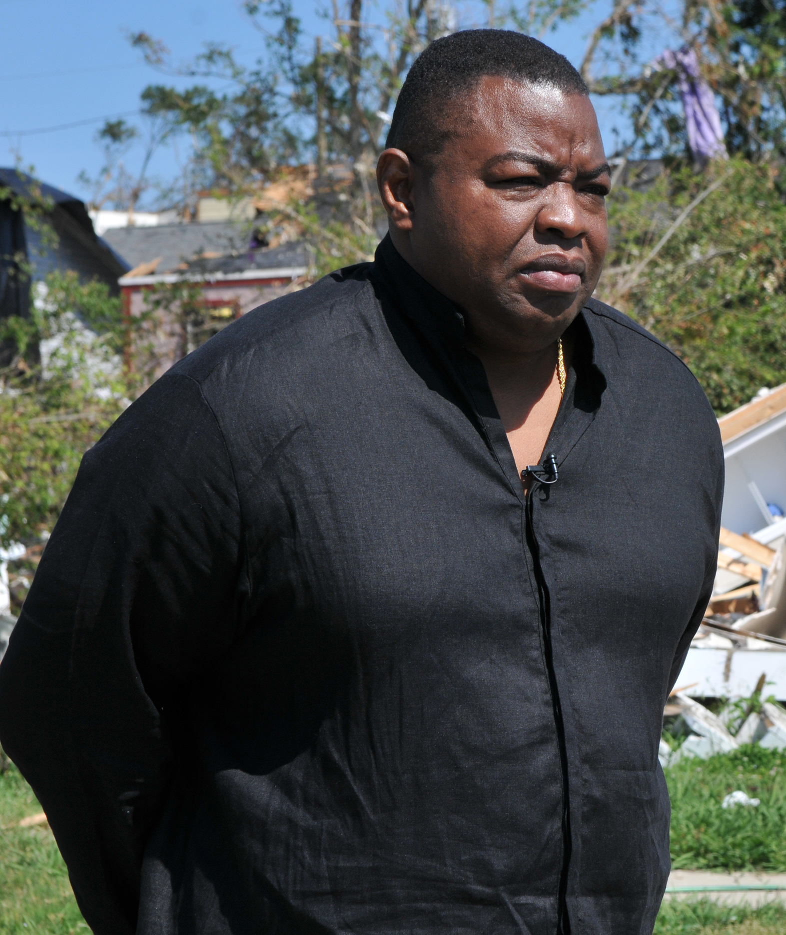 Pratt City,Al., May 18 2011 -- Former NFL Player Gary Burley makes a Public Service Announcement for FEMA. Local atheletes have partnered with FEMA and Alabama Emergency Management to help spread the word about registration for disaster assistance and hurricane preparedness. FEMA photo/Tim Burkitt